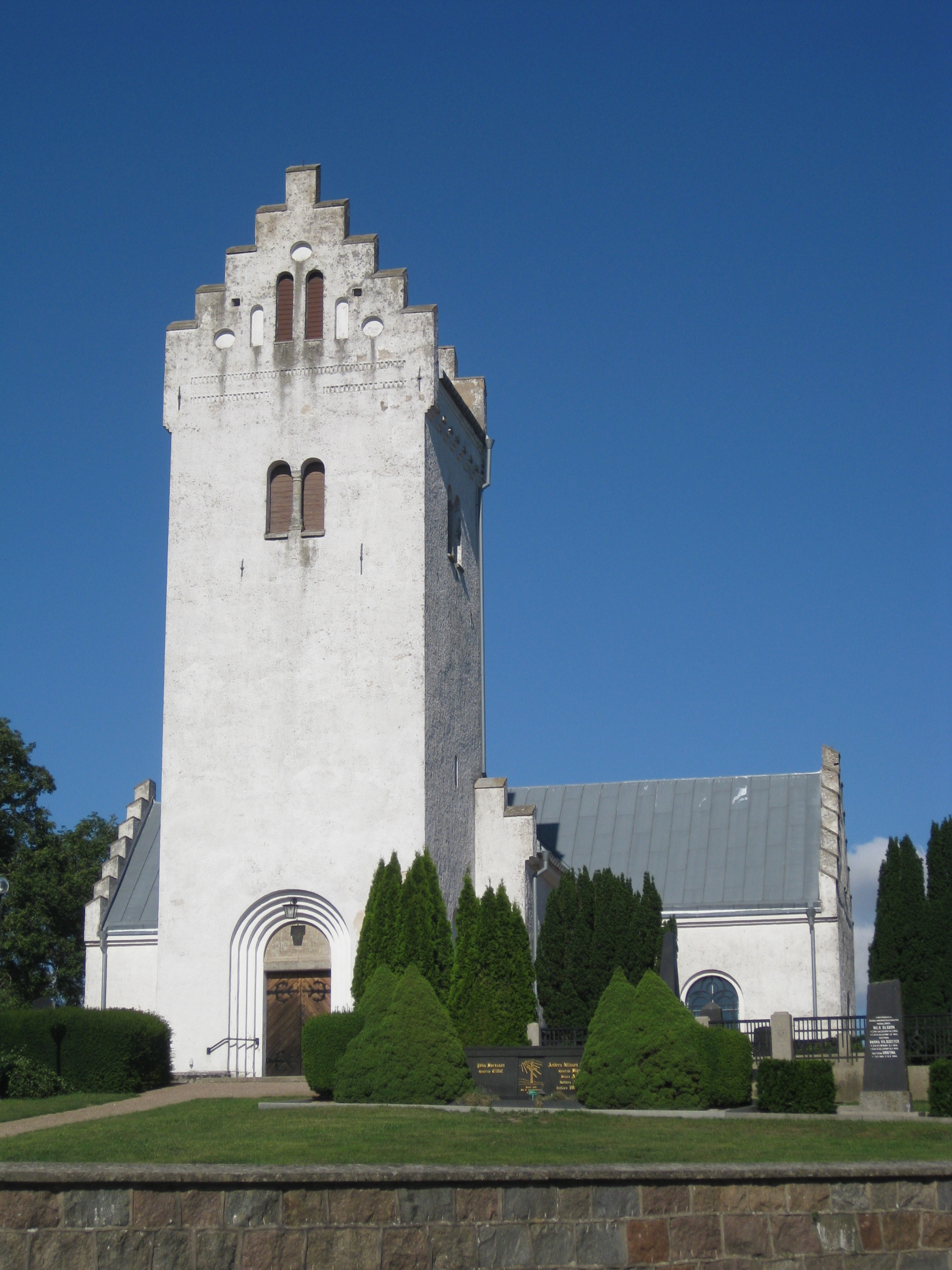 Ullstorp church, Sweden